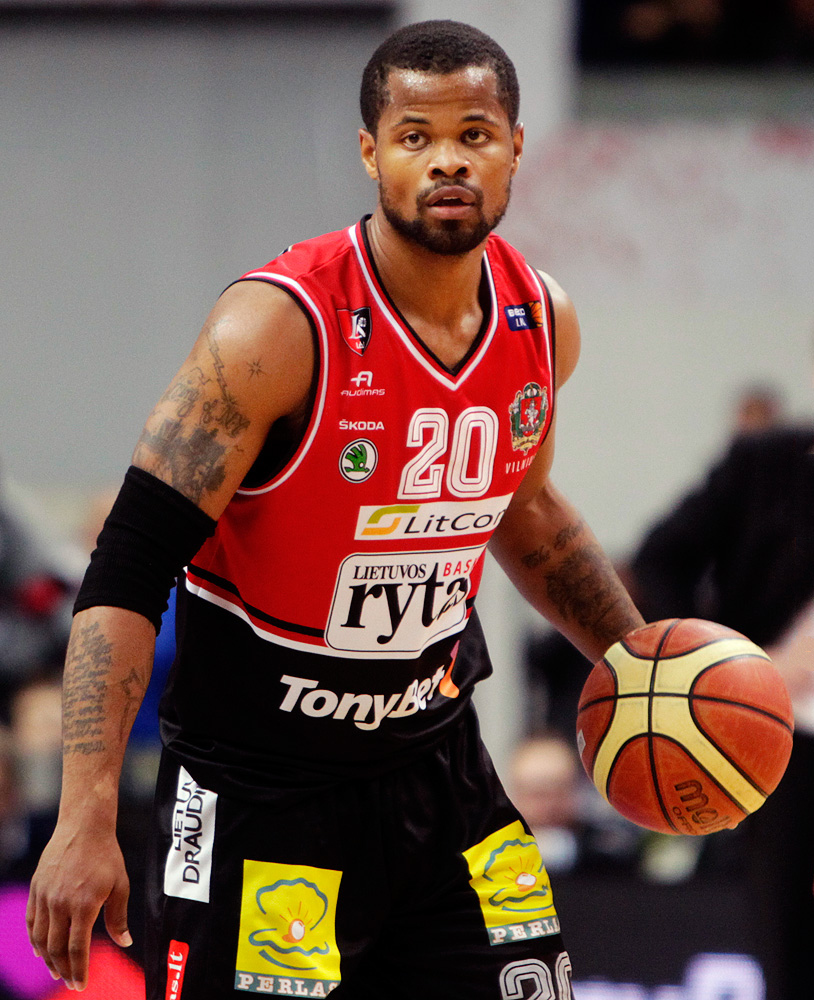 Basketball player Omar Cook